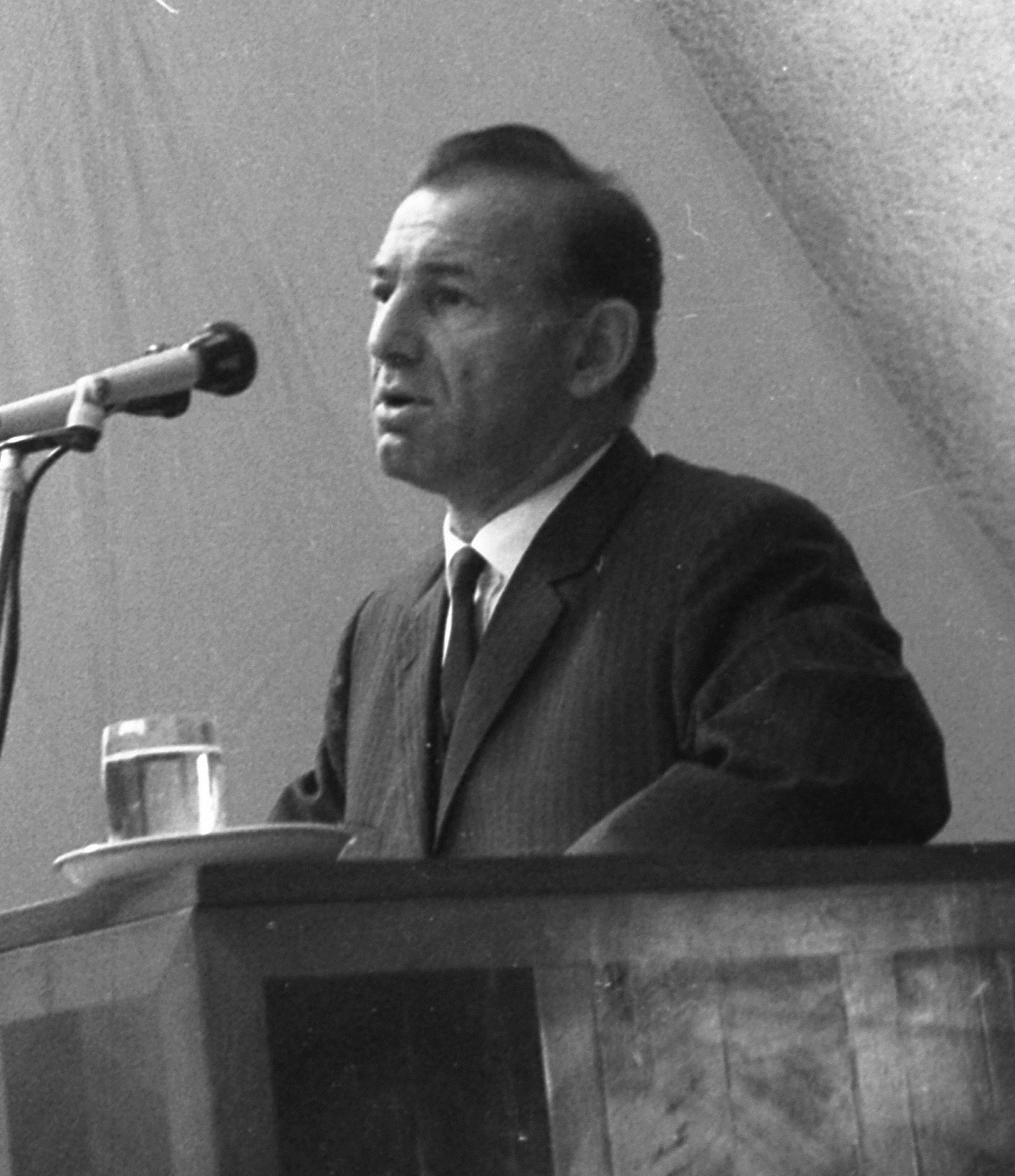 Rezső Nyers in 1970. He was Minister of Finance from 1960 to 1962, and also Hungary's last Communist leader as President of the Hungarian Socialist Workers' Party for a short time in 1989.